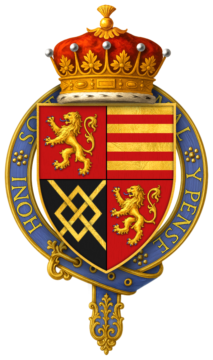 Coat of arms of Sir William FitzAlan, 18th Earl of Arundel, KG Arundel's stall plate remains installed within St. George's Chapel. The arms are, quarterly: 1 and 4, gules, a lion rampant or (Fitzalan); 2, barry of eight, or and gules (Fitzalan of Bedale); 3, sable, a fret or (Maltravers).